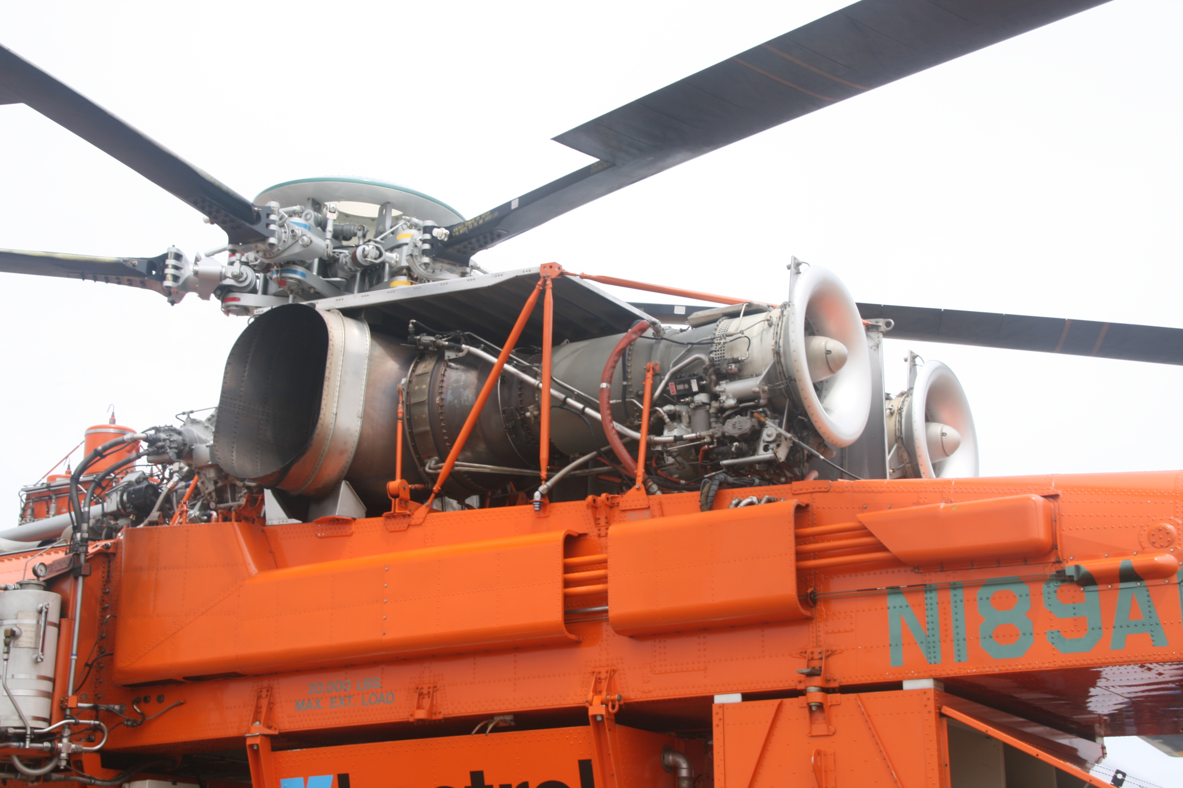 Pratt & Whitney JFTD12A-4A engine installation on an Erickson Air-Crane S-64E Aircrane helicopter. Digital image of the starboard engine of S-64E registration N189AC taken by YSSYguy on 13 February 2014 for use in the Pratt & Whitney T73 article. YSSYguy (talk) 00:16, 14 February 2014 (UTC)